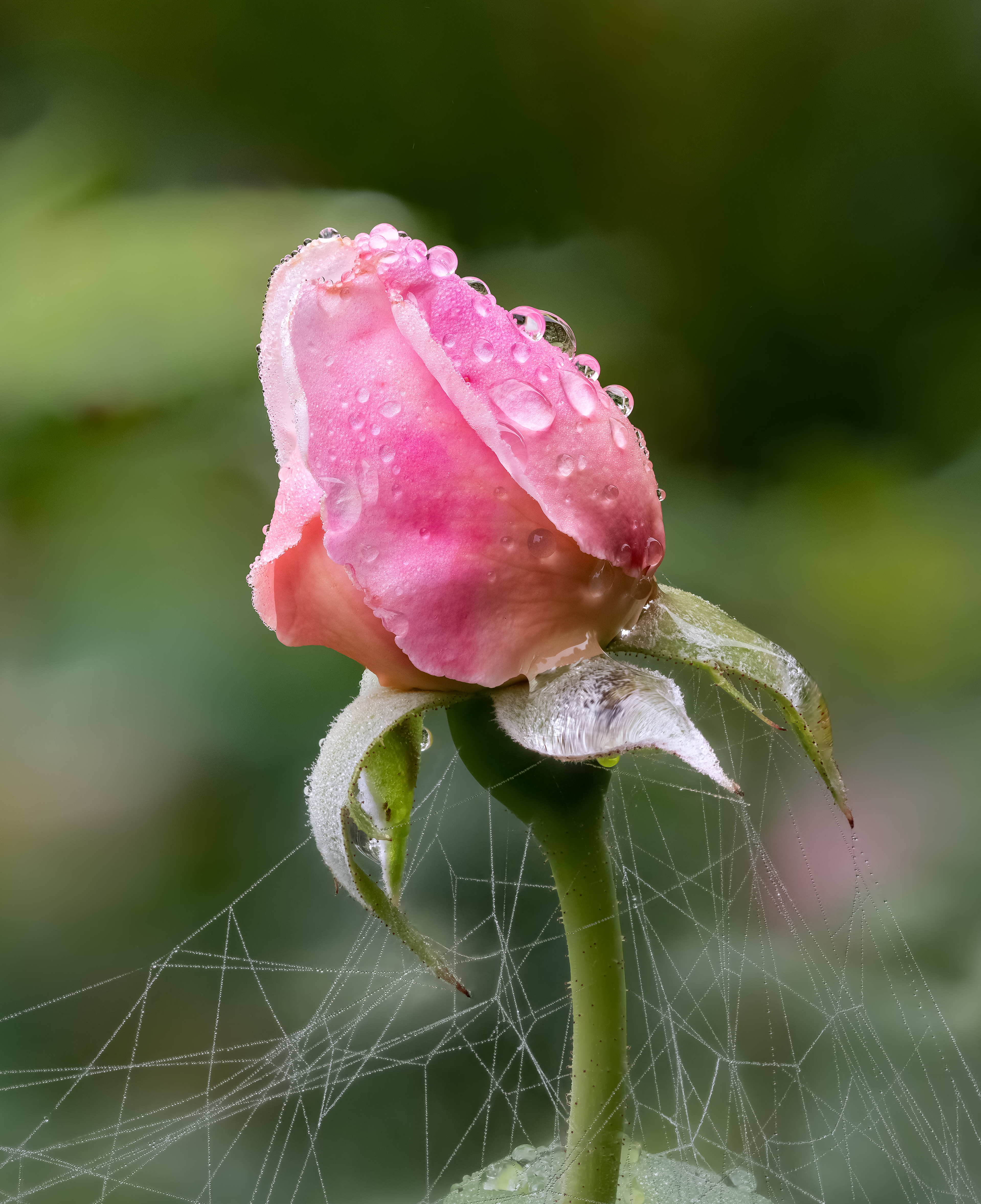 Bud of an English rose of the variety "The Reeve" with raindrops. Focus stack of 18 photos.